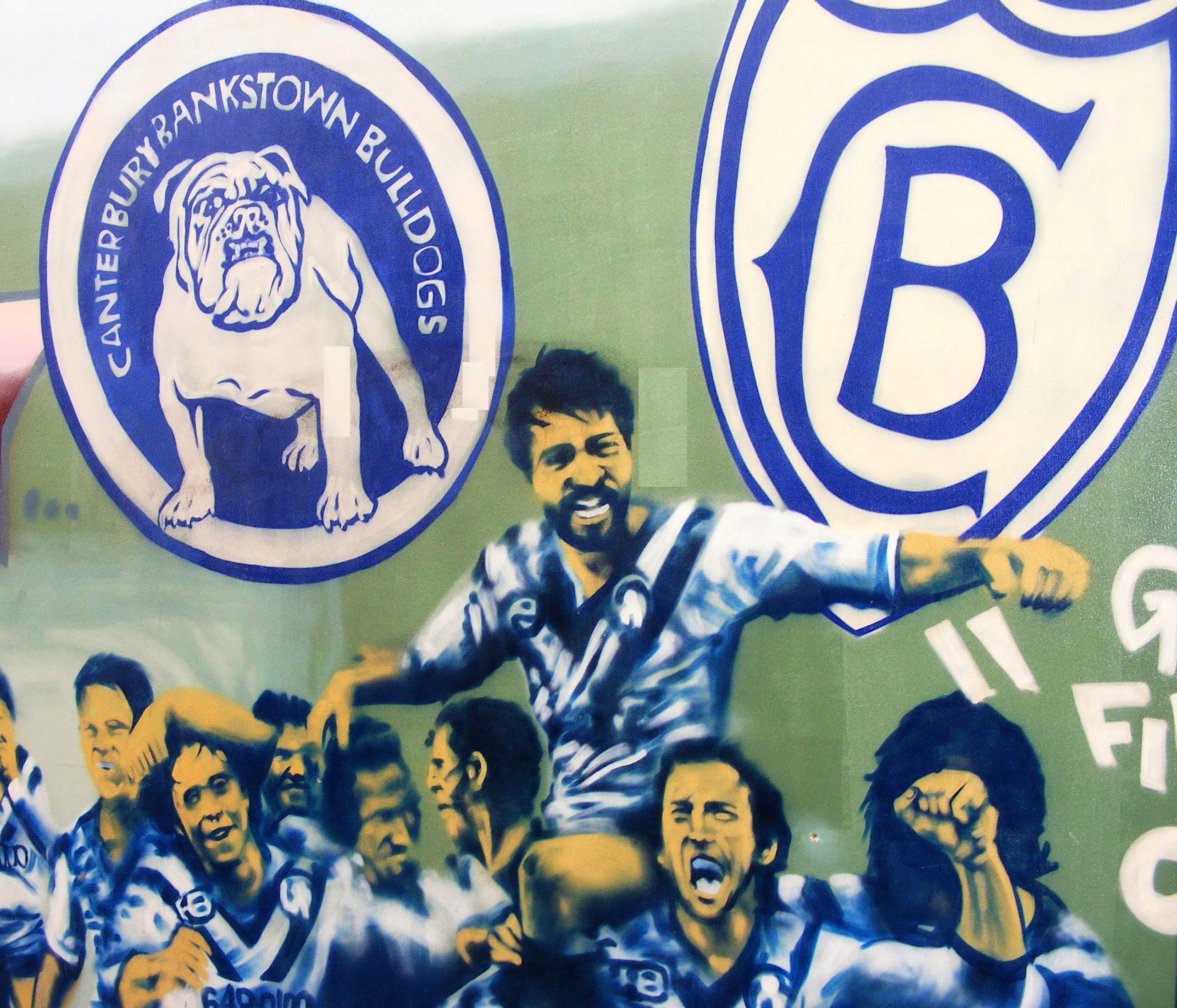 Canterbury-Bankstown Bulldogs celebrate a grand final victory back in the 1980's Artwork